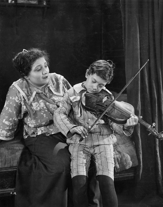 Vera Gordon and Bobby Connelly in a scene from Humoresque (1920).